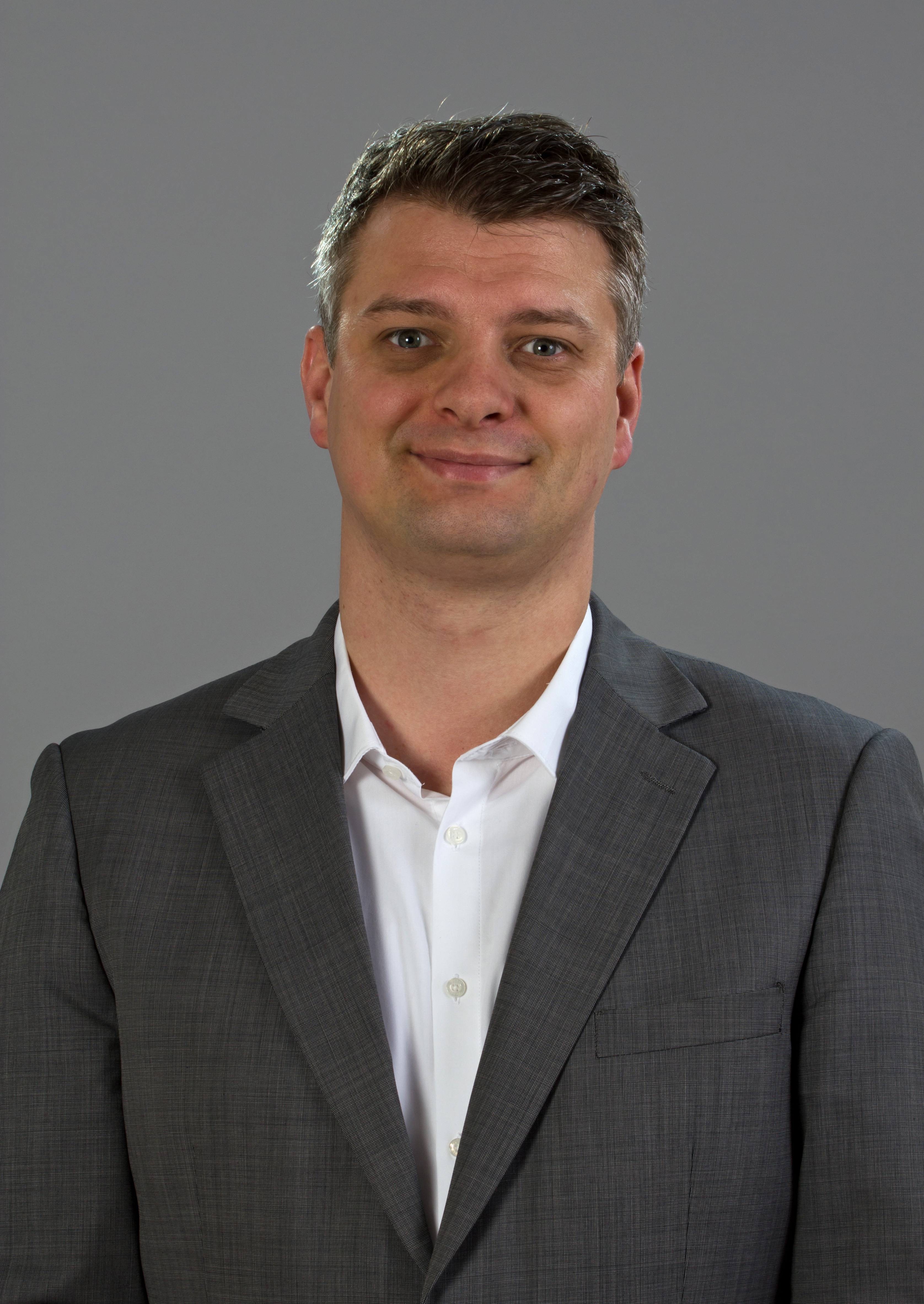 Ole Kreins, politician from Germany, member of Abgeordnetenhaus of Berlin (as of 2013)